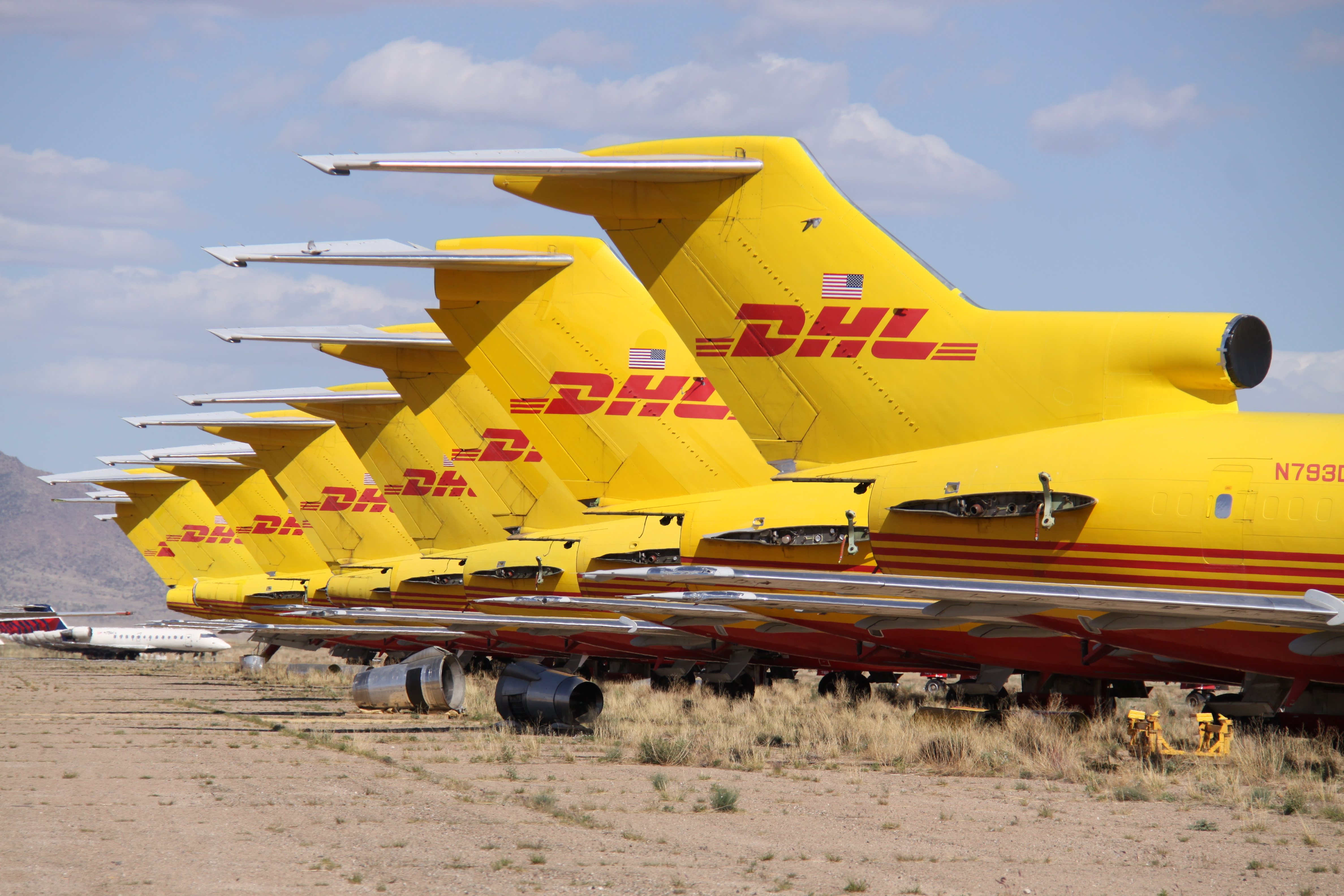 At Kingman Airport ( Arizona )